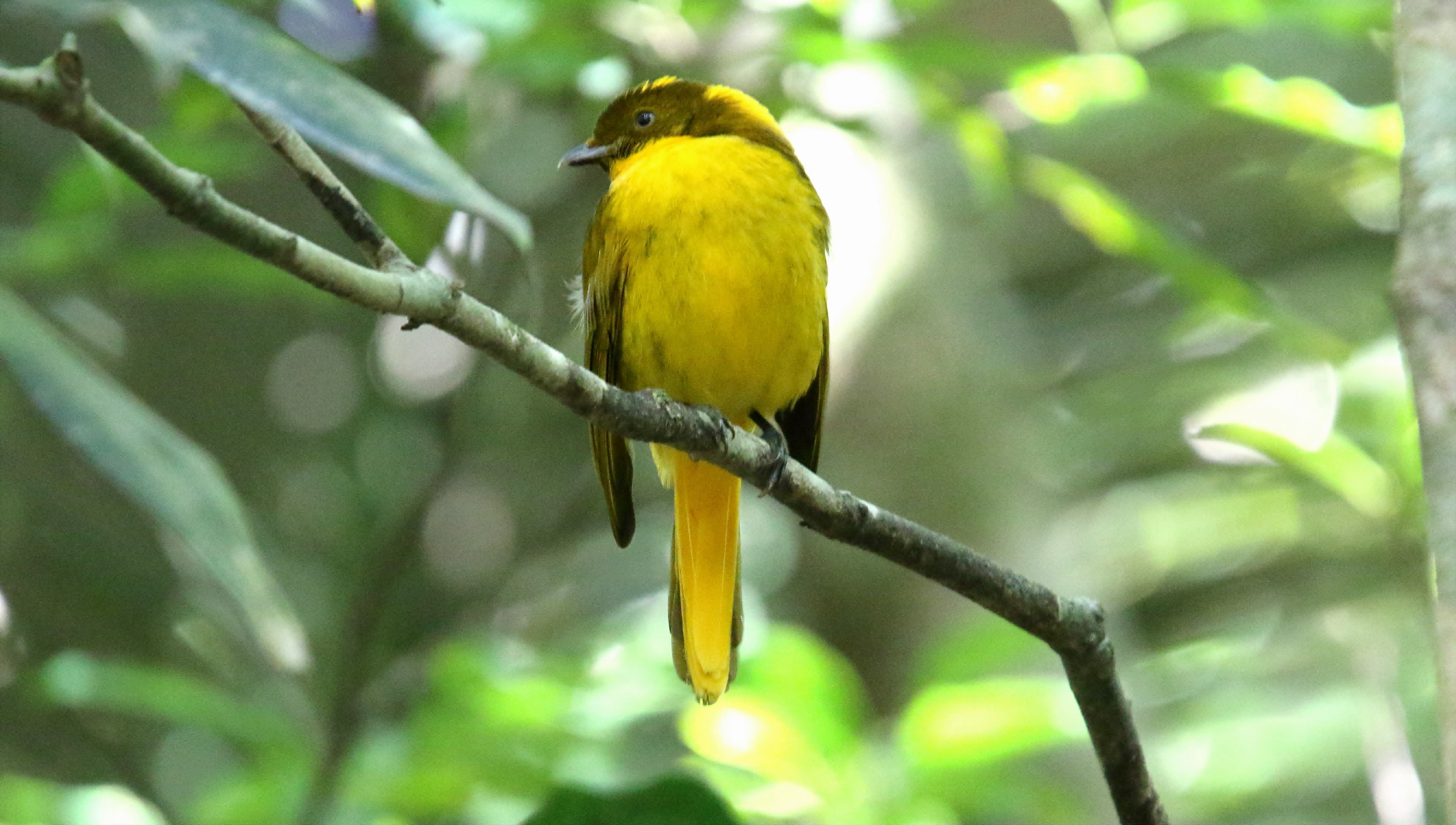 Golden Bowerbird (Prionodura newtoniana)